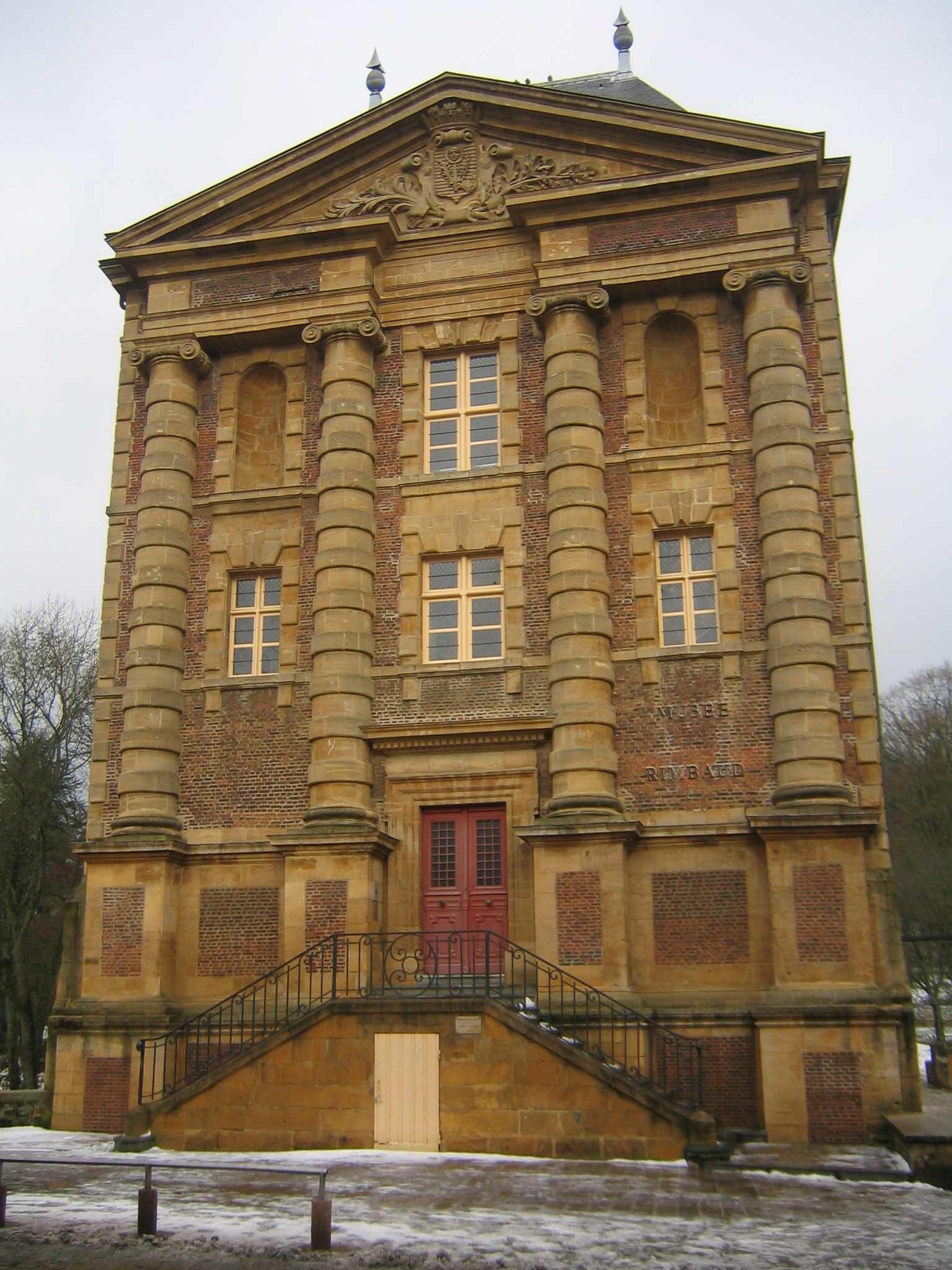 CHARLEVILLE MEZIERES MUSEE RIMBAUD LE MOULIN